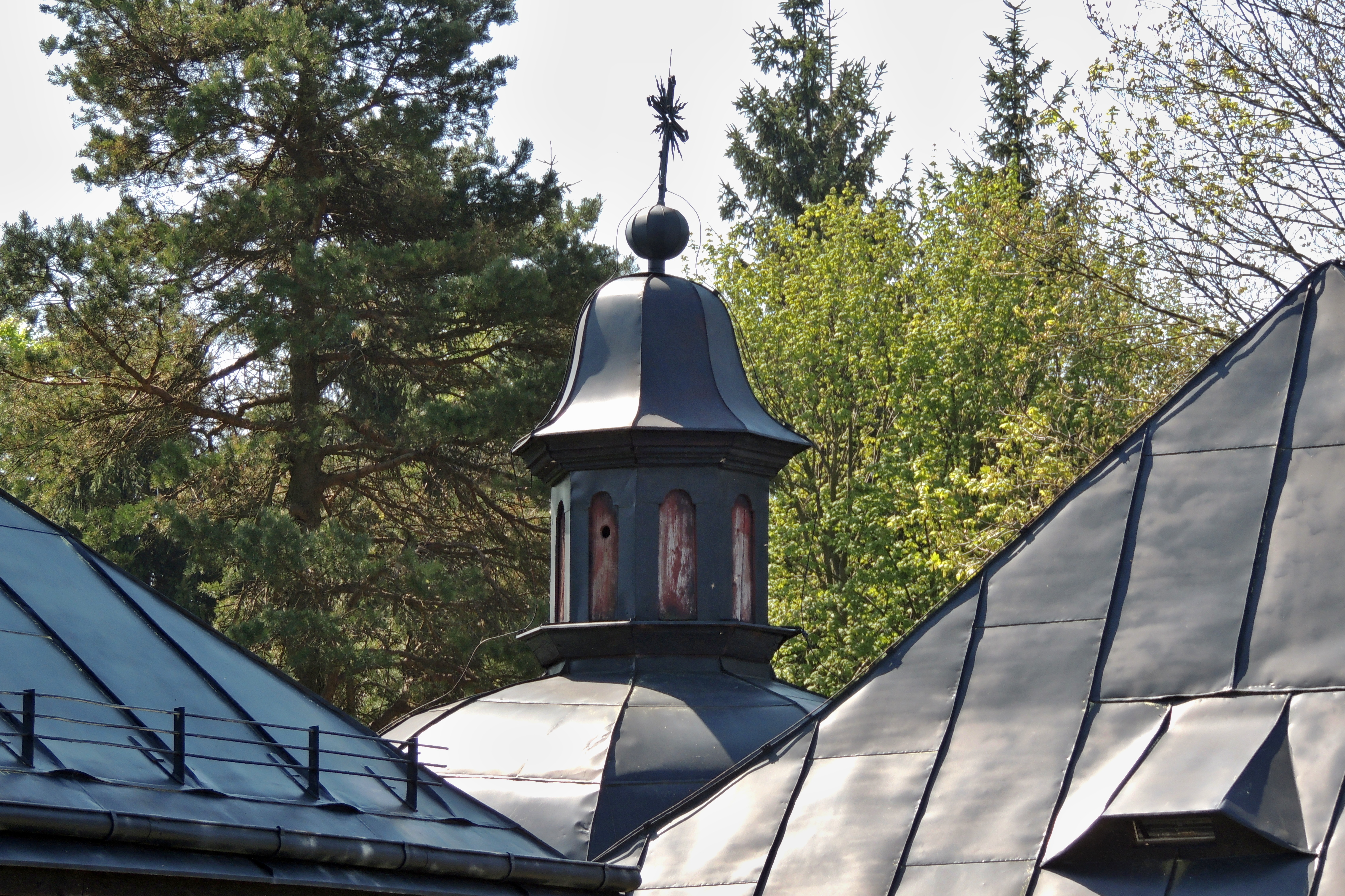 The bell tower with the helmet-type roof on a built-in chapel (originally the chapel of Saint Gilles). Karlštejn on the cadastral territory of Svratouch is originally a hunting castle built between 1770 and 1775 in the style of Central European Baroque, the architecture of the castle is sometimes presented as a rococo style. Since 1958 is the castle a cultural monument and has been included in the catalog of the National Monument Institute. The castle complex is situated in the settlement location of Karlštejn, part of the village Svratouch, from an administrative point of view in the district of Chrudim belonging to the Pardubice Region in the territory of the Czech Republic. Photo-location: Czechia, Pardubice Region, the village of "Svratouch", the hill with named "Karlštejn", azimuth 175°.